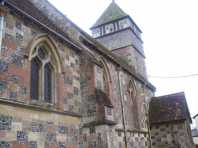 St Catherines Church, Netherhampton